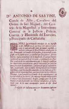 From La estructura documental del Catastro de PatiÃ±o, segÃºn las Reglas Anexas al Real Decreto de 9 de diciembre de 1715.